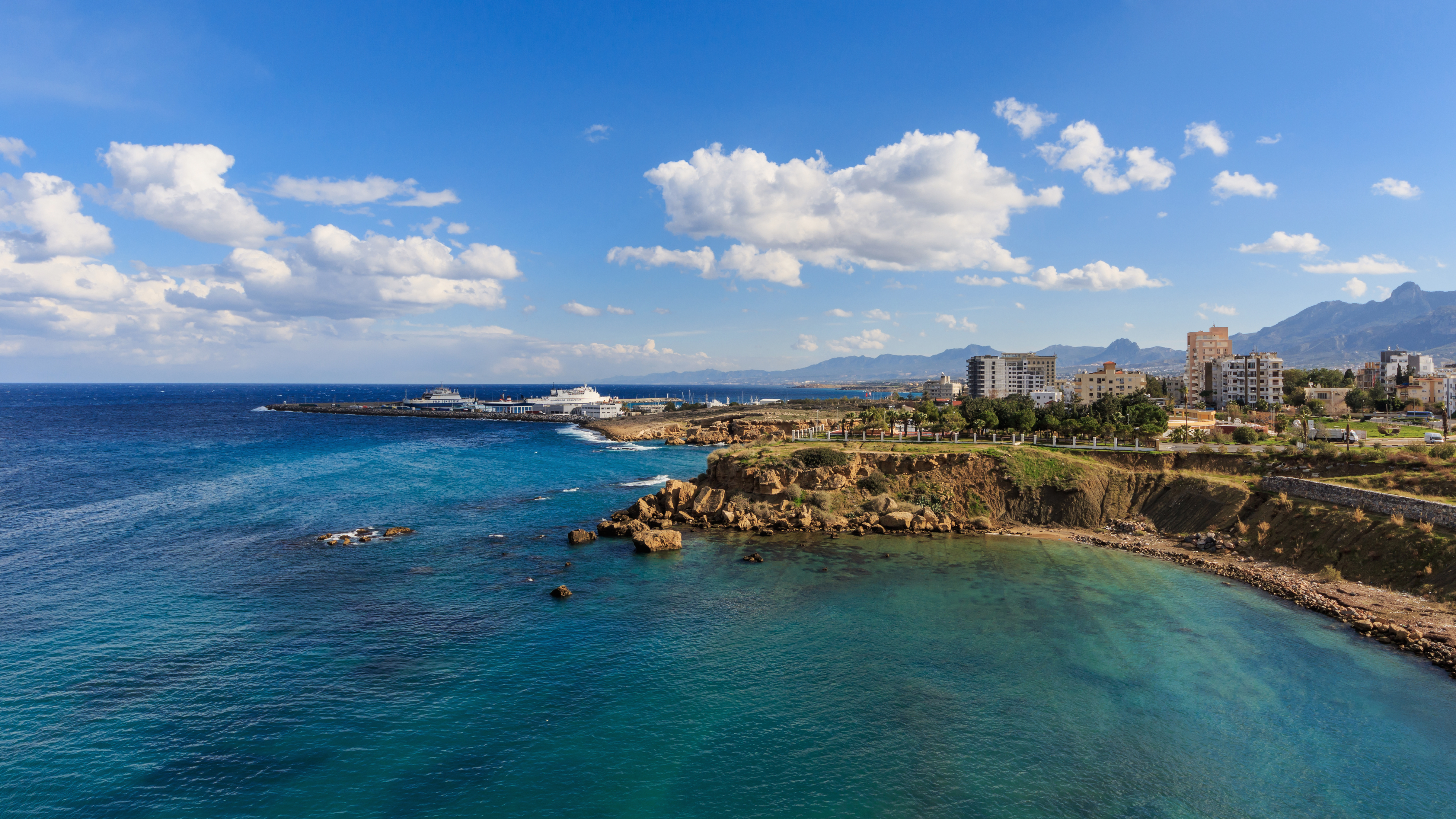 View towards the new harbour from the castle in Kyrenia, Cyprus